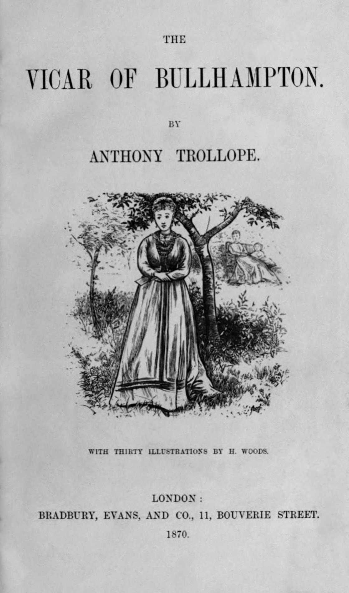 First edition title page of The Vicar of Bullhampton by Anthony Trollope